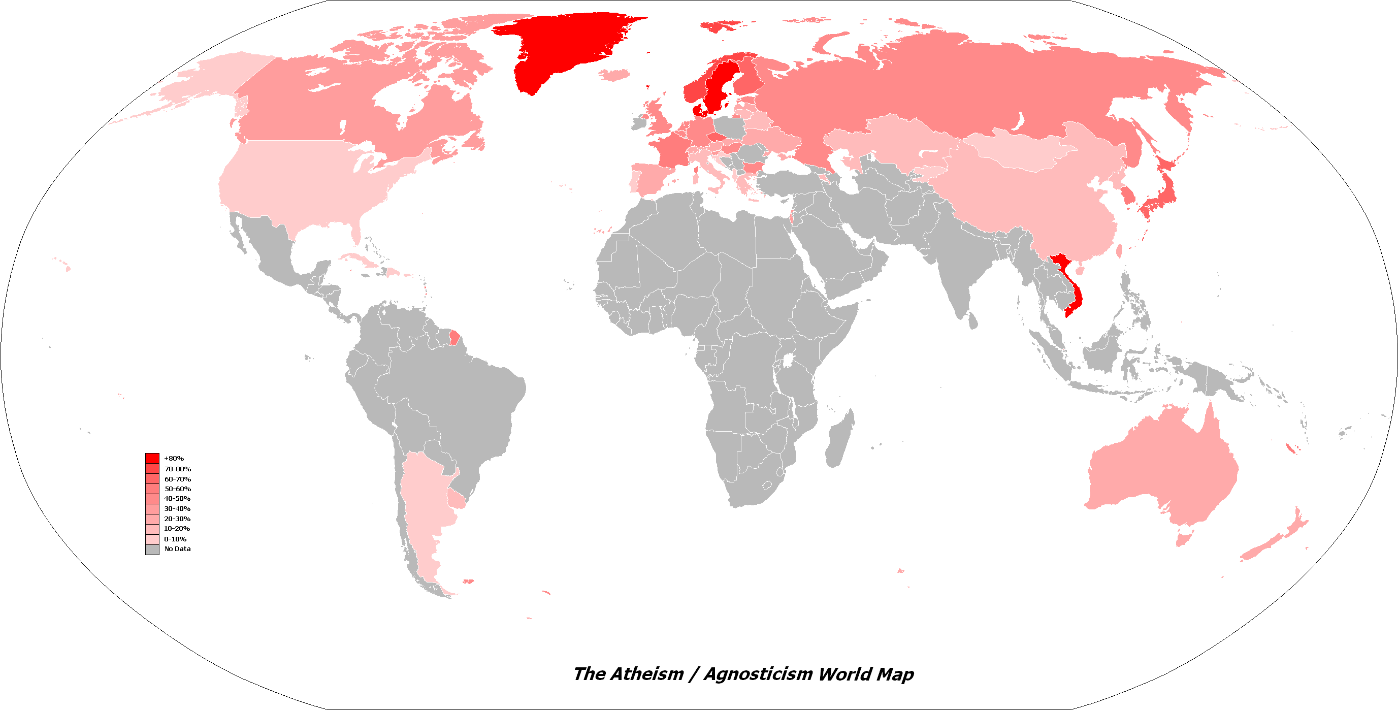 The Atheist / Agnosticism World Map